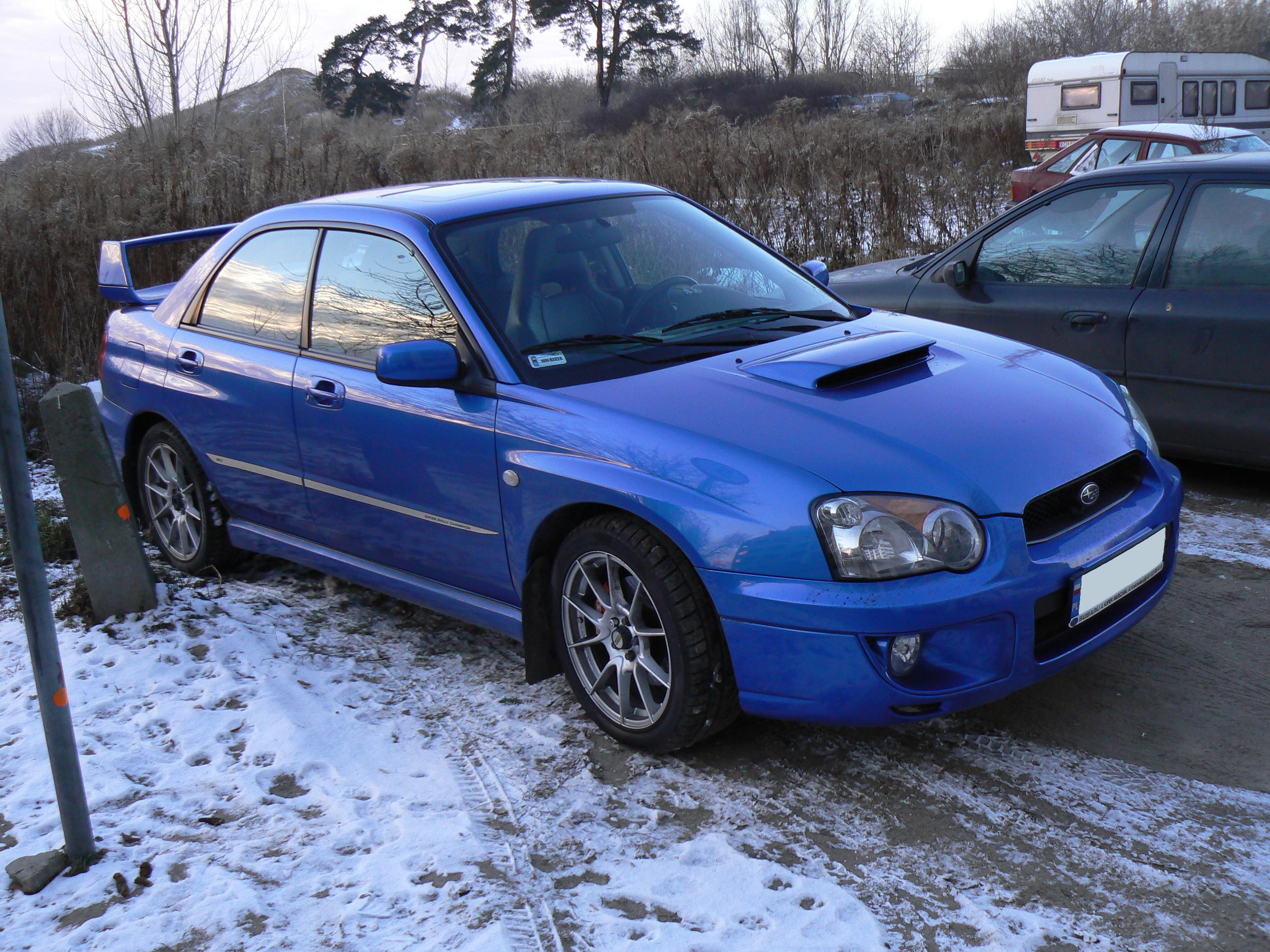 Second generation Subaru Impreza WRX, after the first facelift (MY2004 - 2005). Photo taken in Warsaw, Poland.